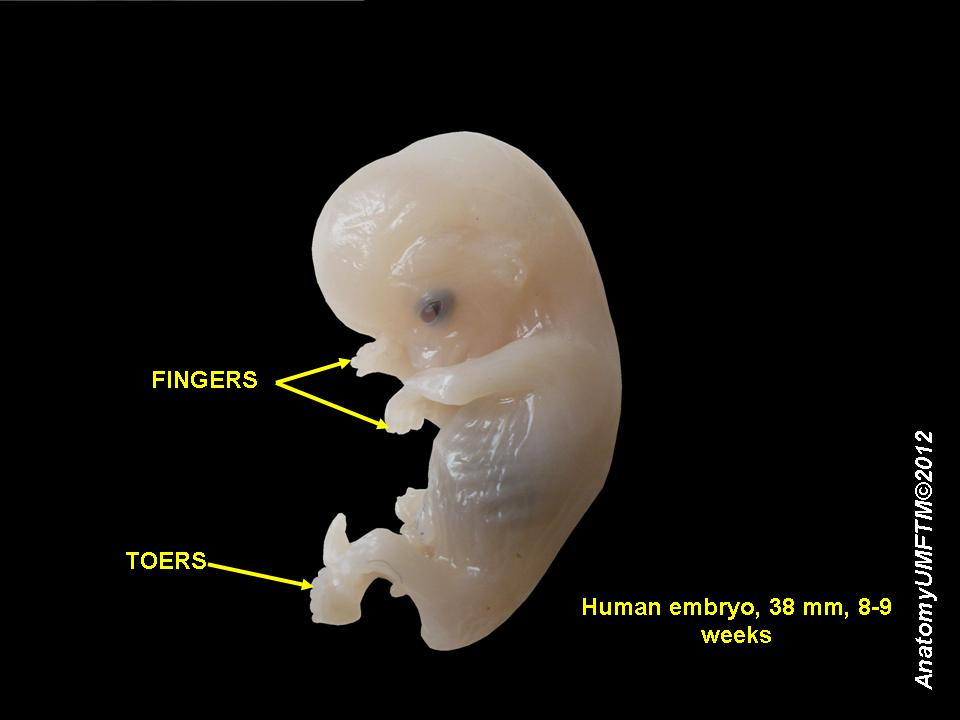 Human embryo, 38 mm, 8-9 weeks